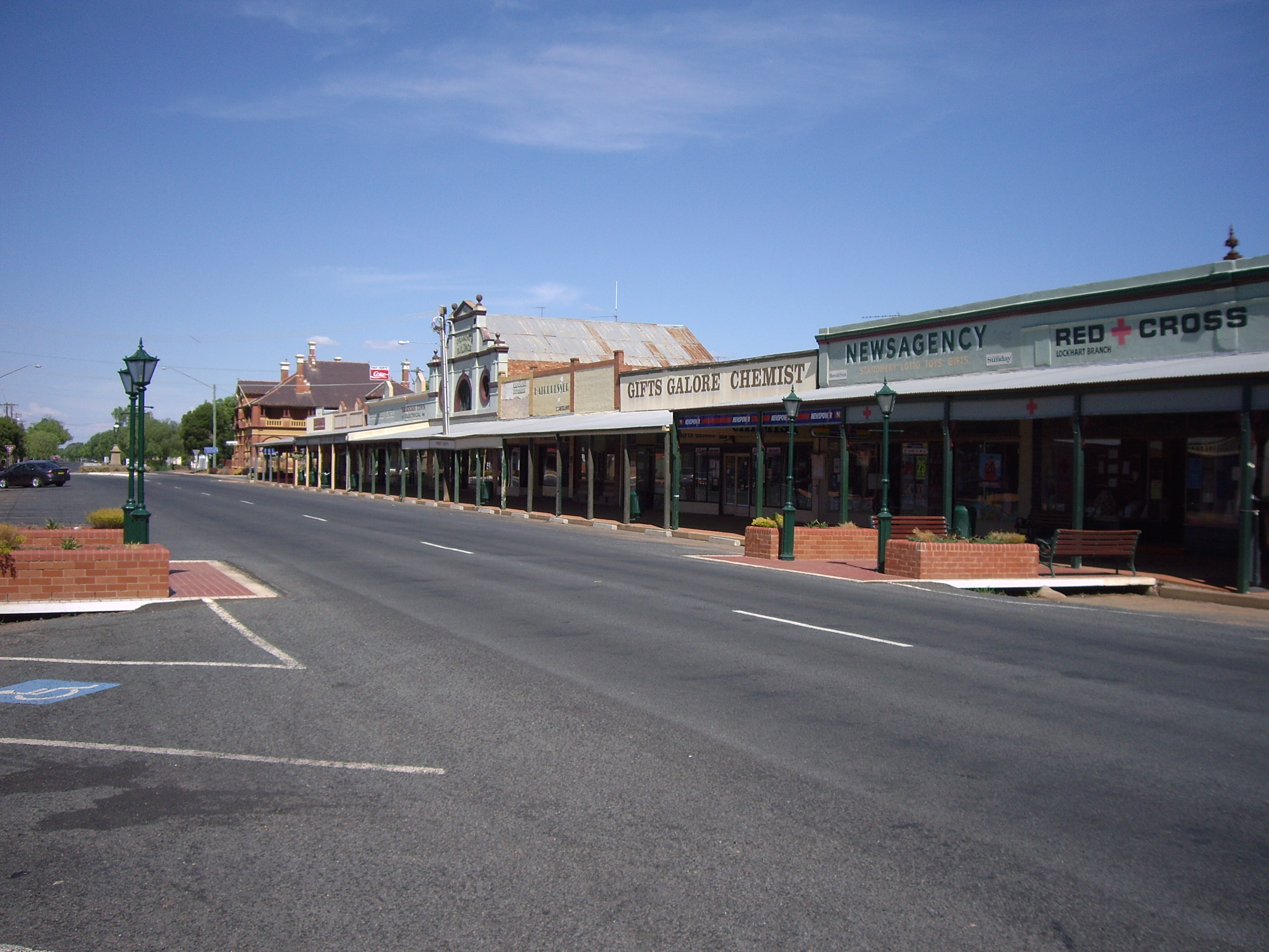 Lockhart Verandah Town 1